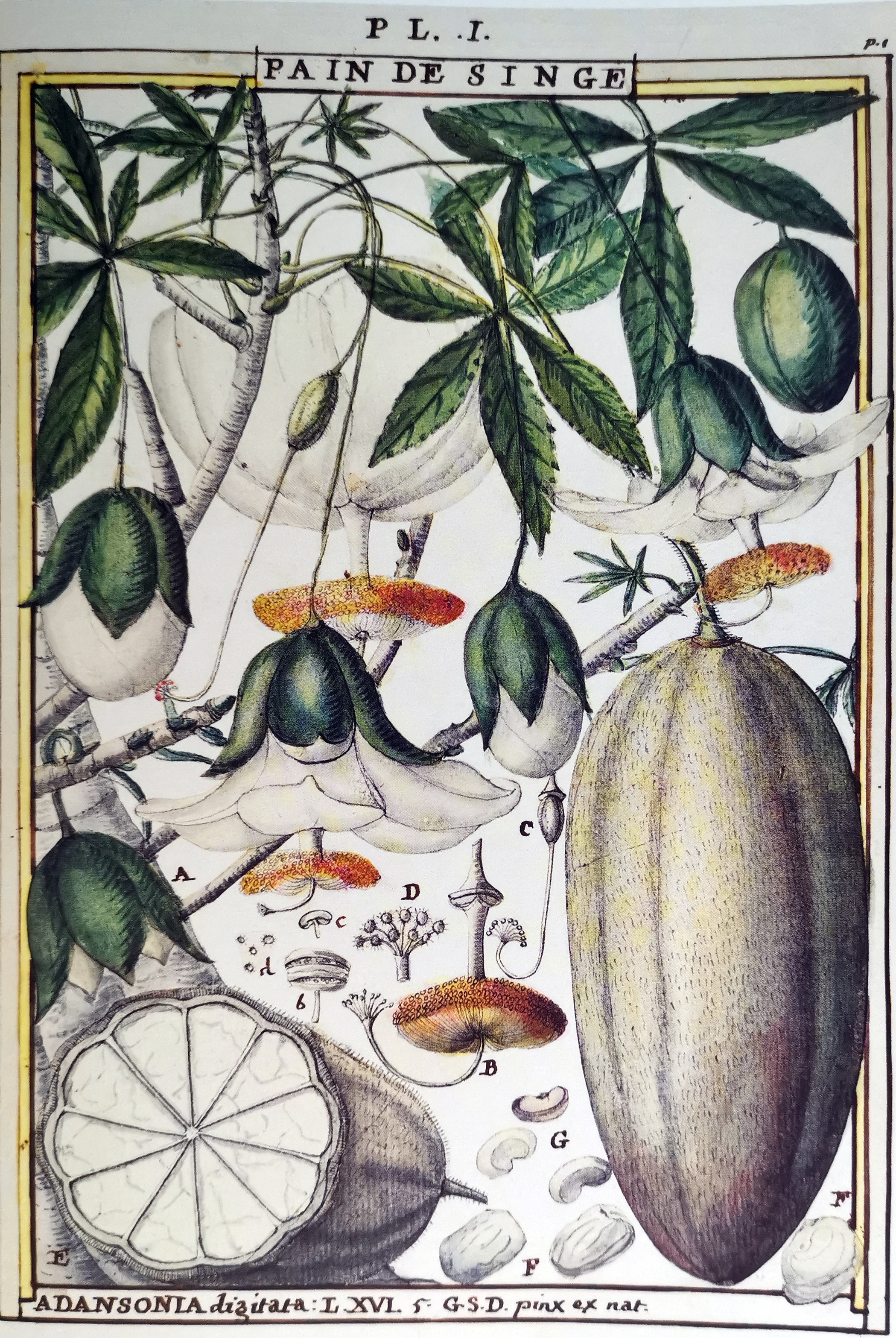 Adansonia digitata from 'Florindie, ou histoire physico-economique des vegetaux de la Torride'